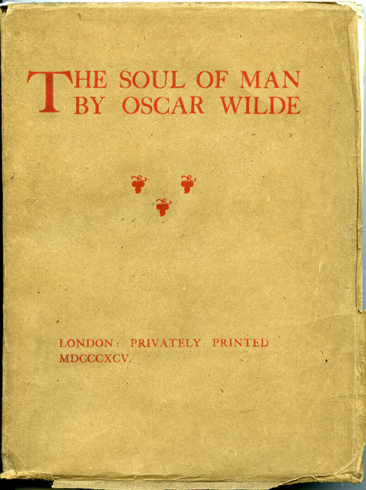 Cover of the 1895 book edition of Oscar Wilde's essay The Soul of Man, "privately printed" in 50 copies at Chiswick Press, 30 May 1895, five days after Wilde's conviction for gross indecency. Compared to the first publication in The Fortnightly Review, February 1891, not only the original title The Soul of Man under Socialism has been truncated. The aphoristic pronouncement "a community is infinitely more brutalised by the habitual employment of punishment, than it is by the occasional occurrence of crime" in the 1891 edition (p. 301), is in 1895 no longer presented in italics, and the word “occasional” has been deleted. Cf. Gregory Mackie: Textual Dissidence: The Occasions of Wilde’s ‘The Soul of Man under Socialism’.